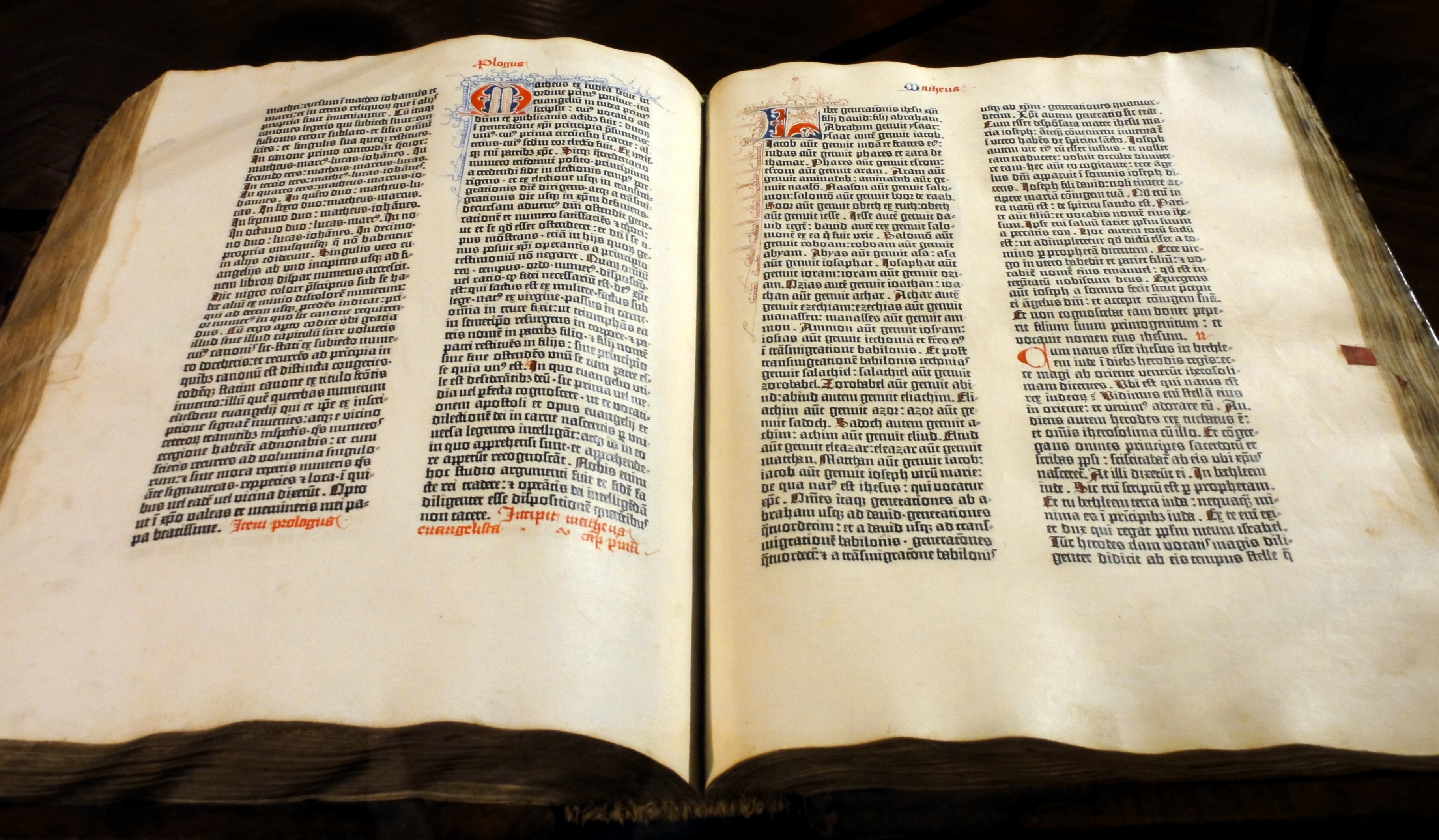 Gutenberg Bible (Pelplin copy), vol. 1 Pelplin Diocesan Museum, Pelplin, Poland